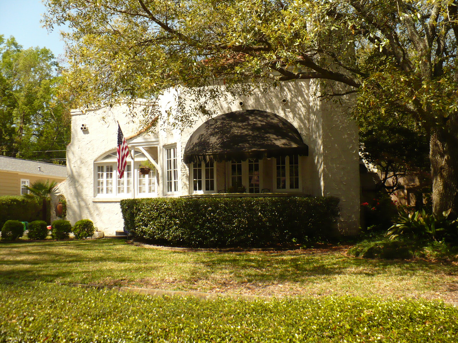 119 Florence Place in Mobile, Alabama. A modest example of Spanish Colonial Revival architecture on the Central Gulf Coast of the United States. Individually listed on the National Register of Historic Places.